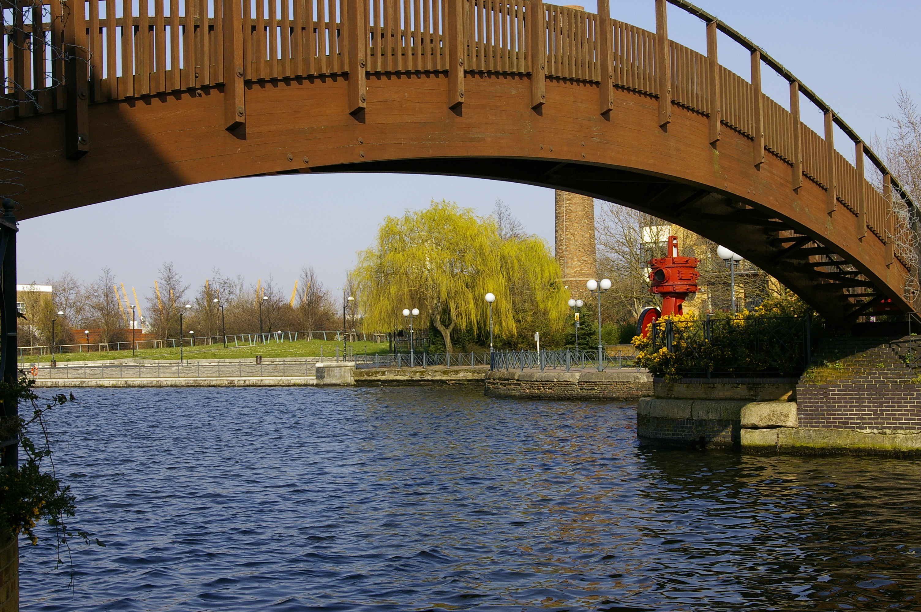 Disused timber footbridge at Clipper Quay on Millwall Dock with a disused engine and customs furnace in the near background and the Millenium Dome in the far background.